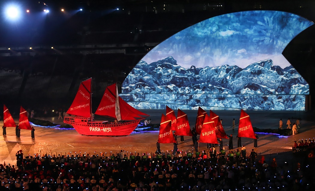 2018 Asian Para Games opening ceremony